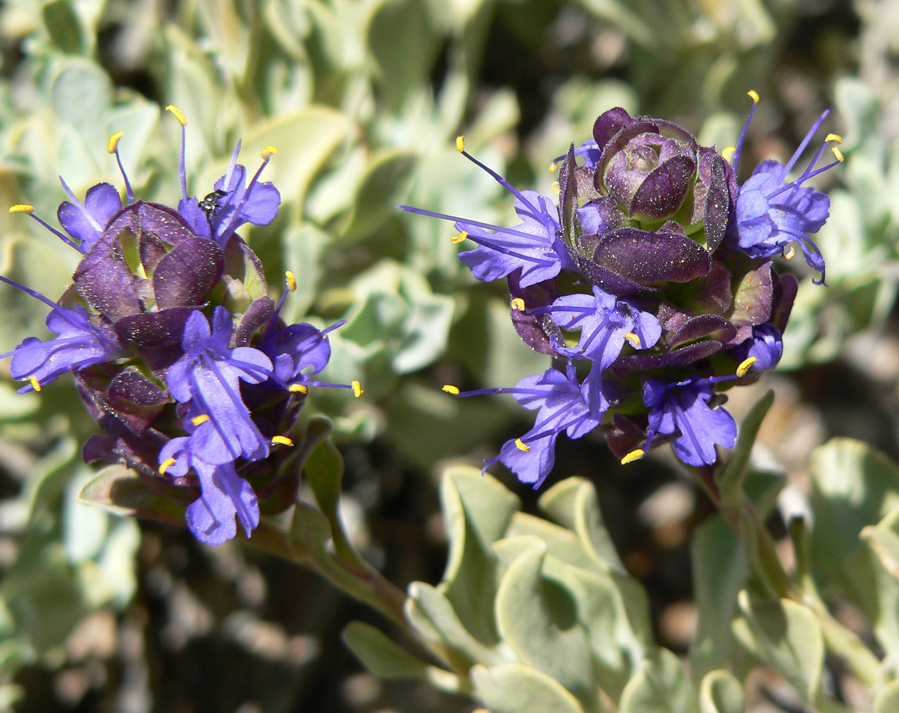 Salvia dorrii var. clokeyi alongside the Bristlecone Trail, Lee Canyon, Spring Mountains, southern Nevada (elev. about 2800 m)